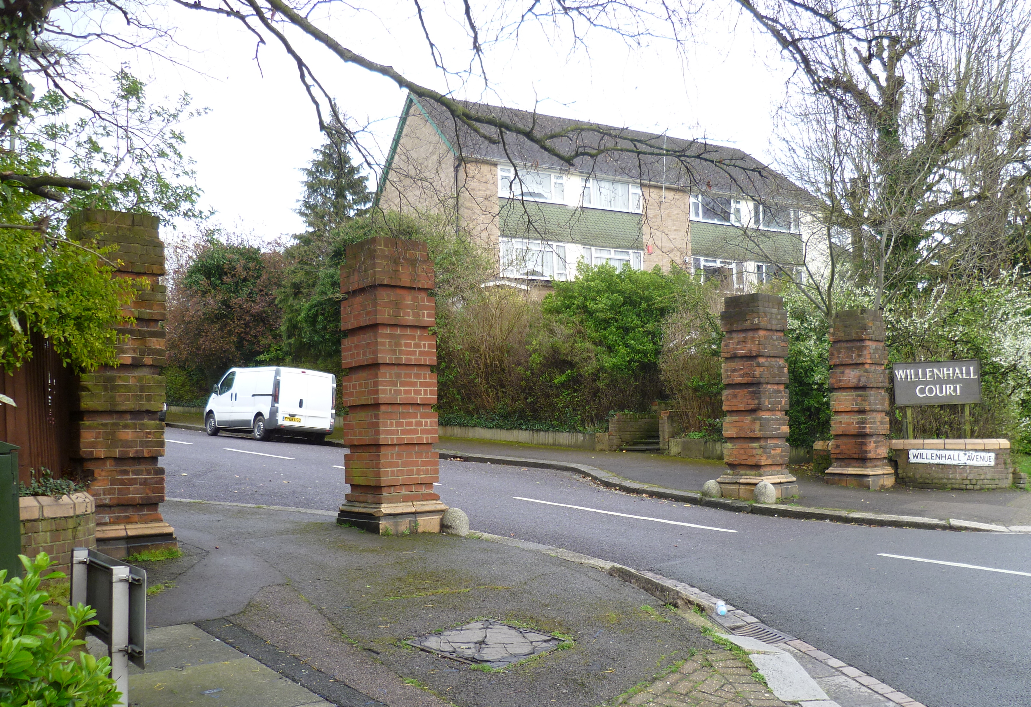 London